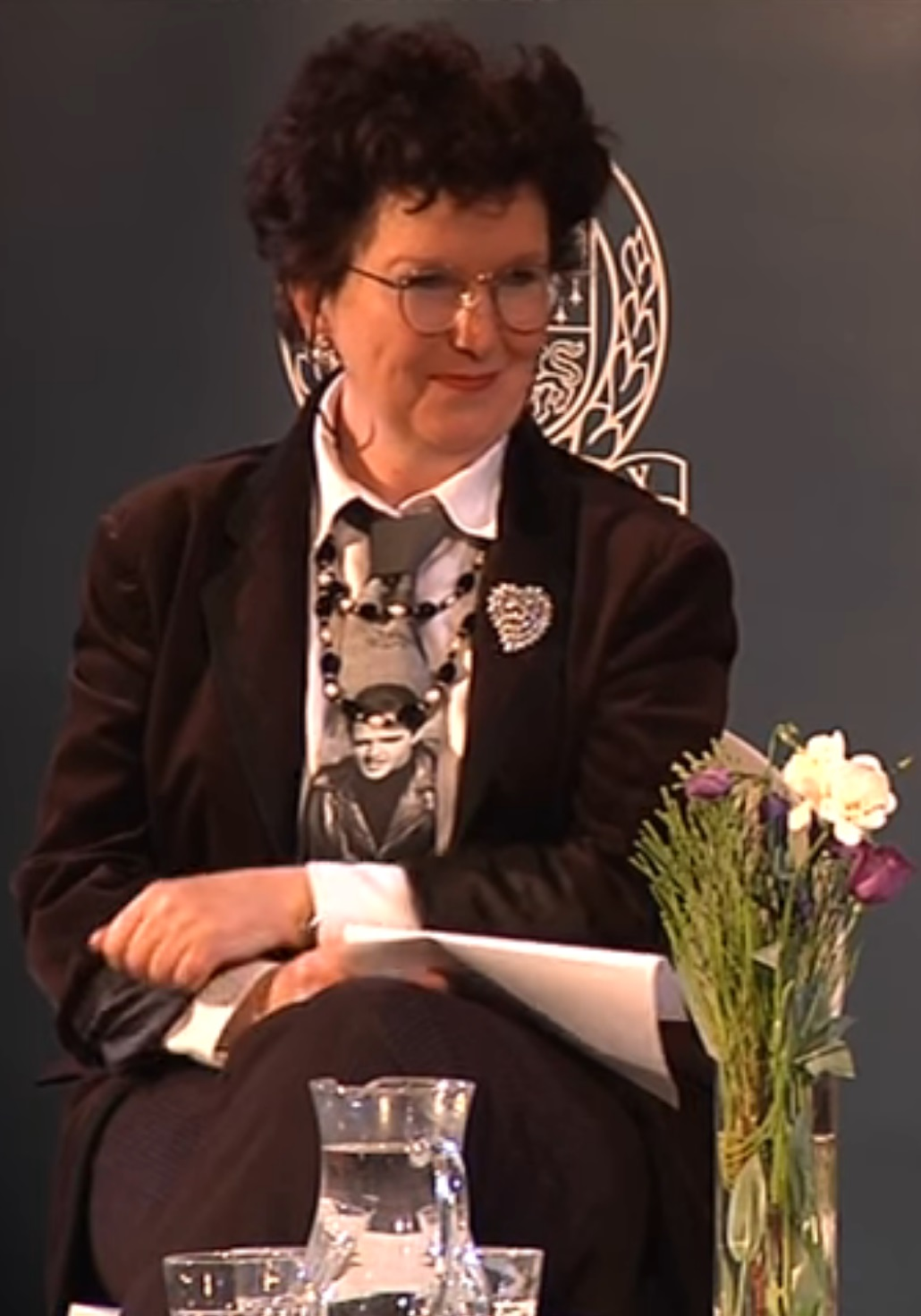 Date recorded: 17/04/2011 Fidelis Morgan, English actress and co-author of The Happy Hoofer, an autobiography of actress Celia Imrie.